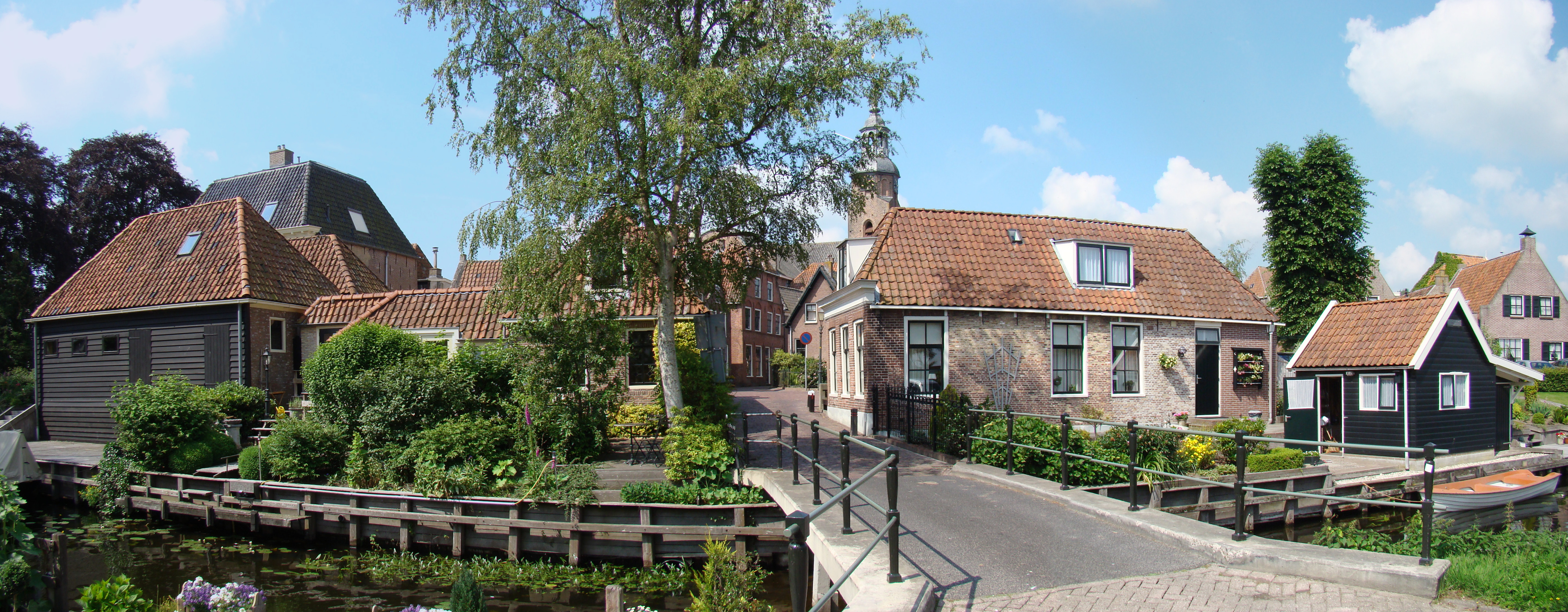 Impressions of Blokzijl